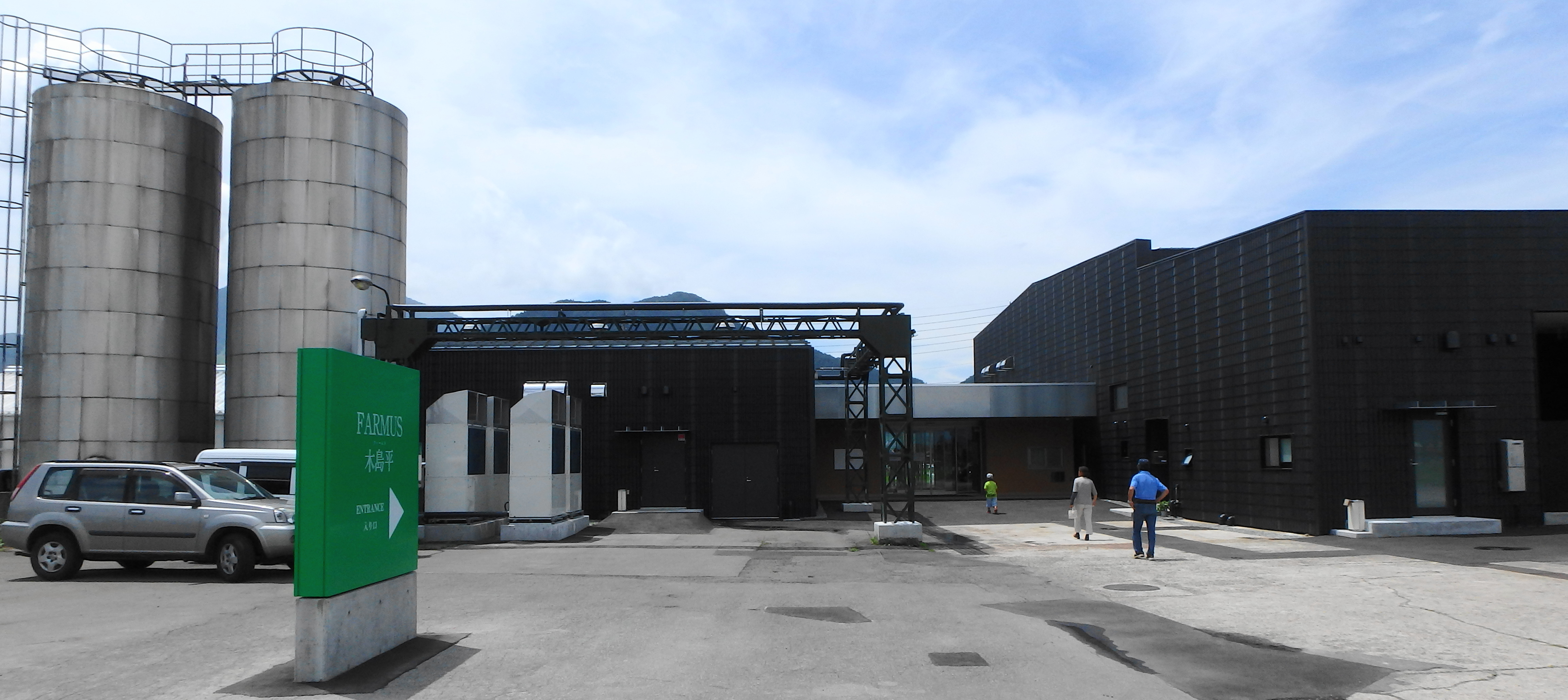 Roadside station FARMUS Kijimadaira,Nagano prefecture,Japan